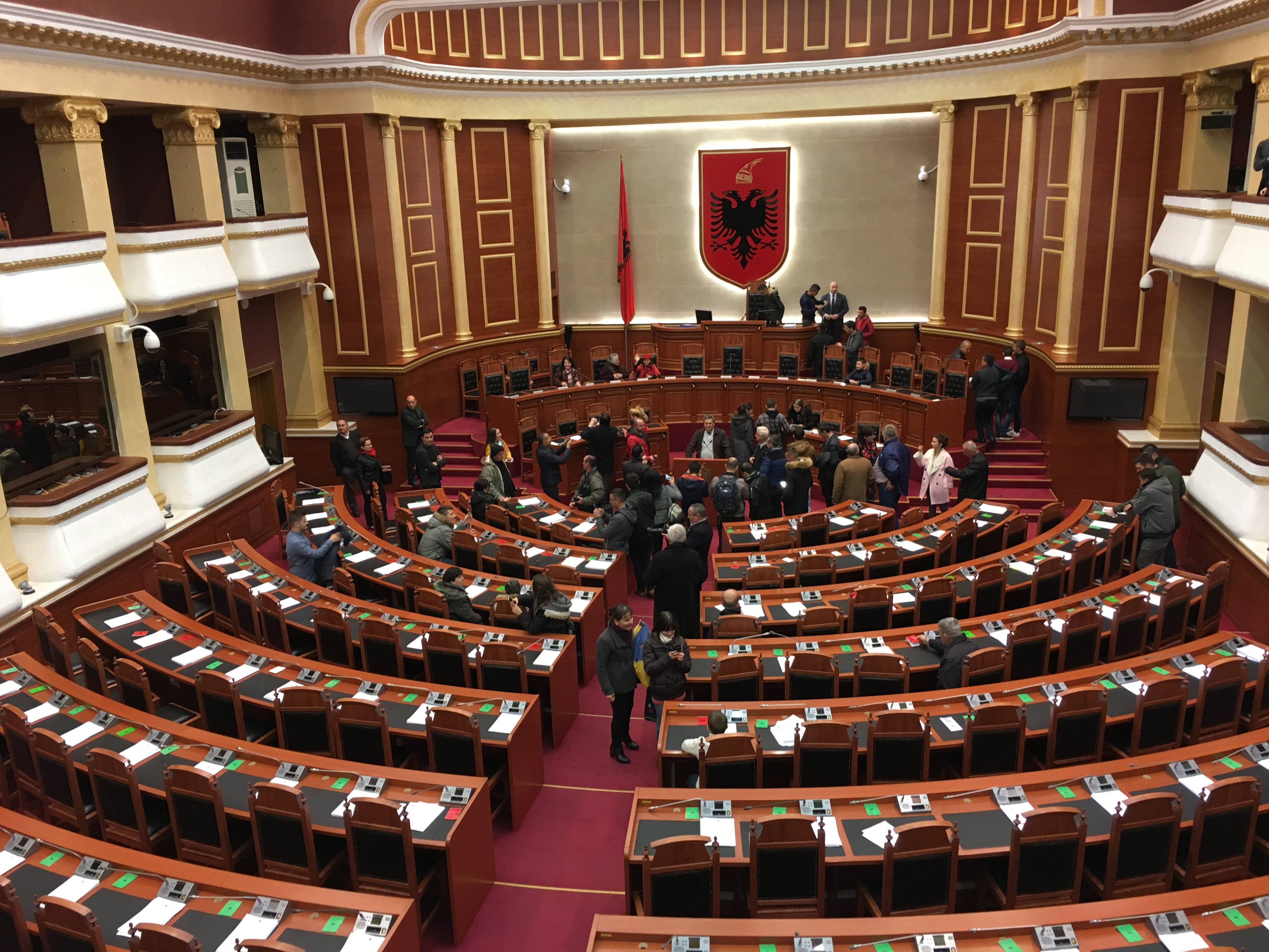 opened for public